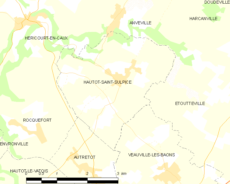 Map of French municipality Hautot-Saint-Sulpice